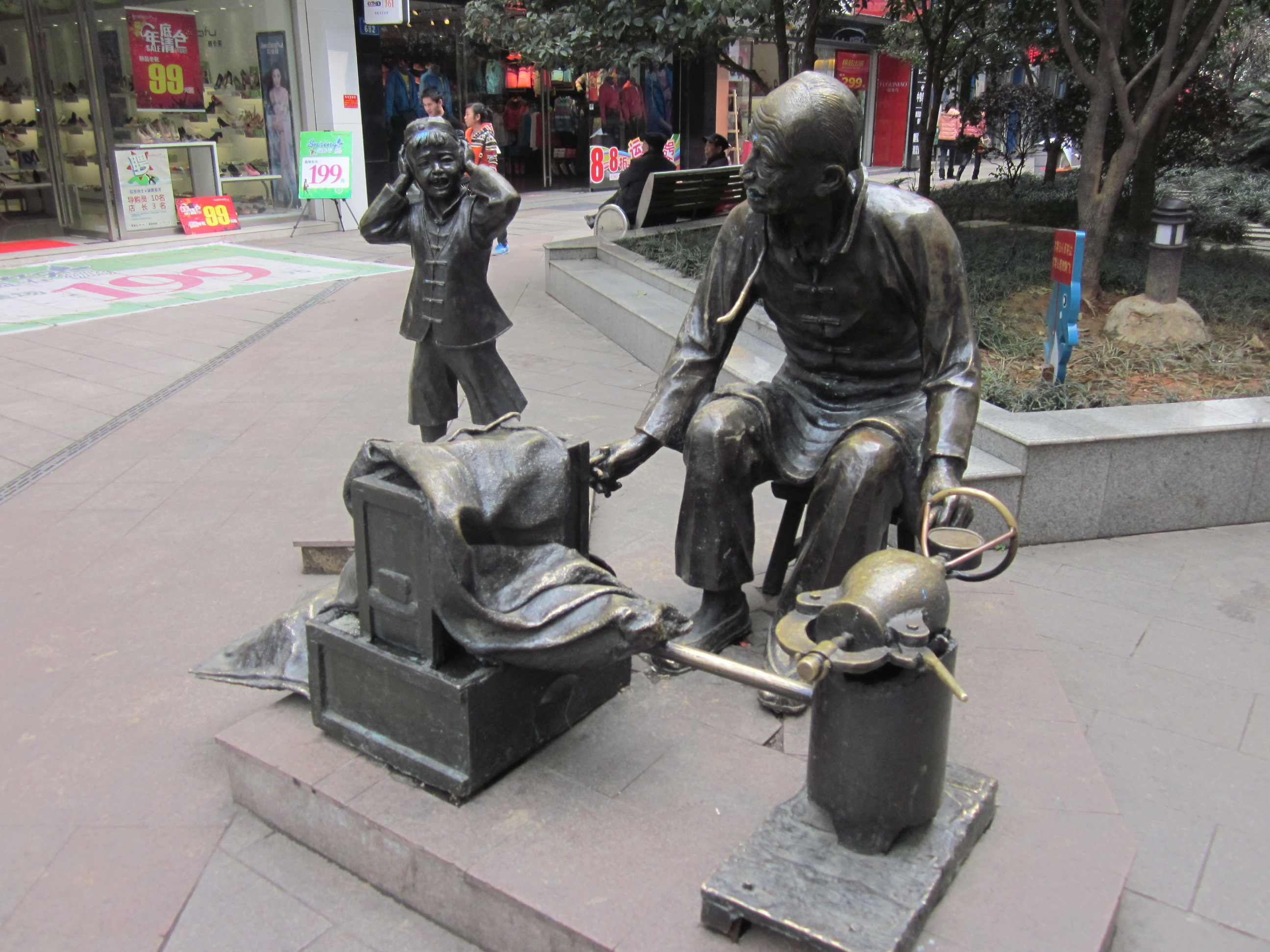 Loudi, Hunan, China.